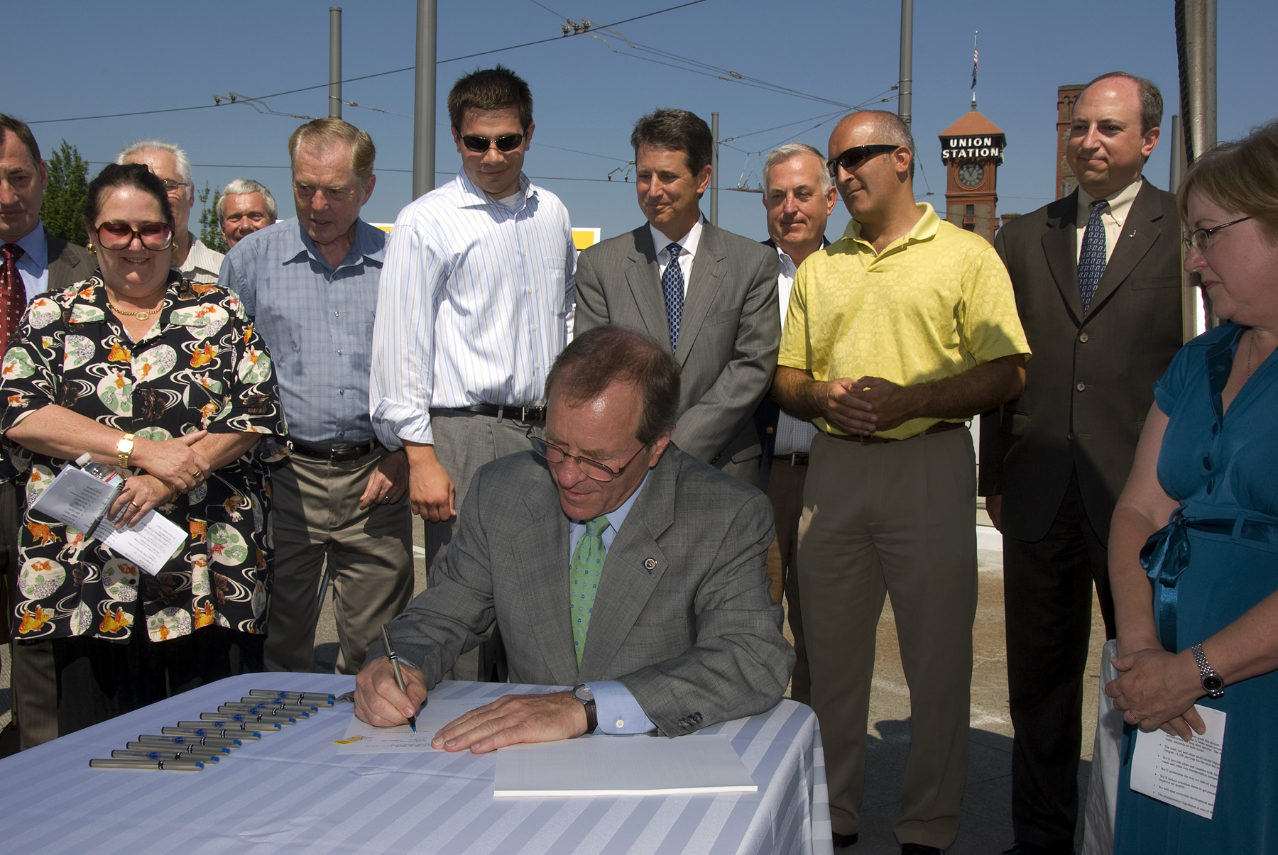 Gov. Ted Kulongoski signs HB 2001, the Jobs and Transportation Act.